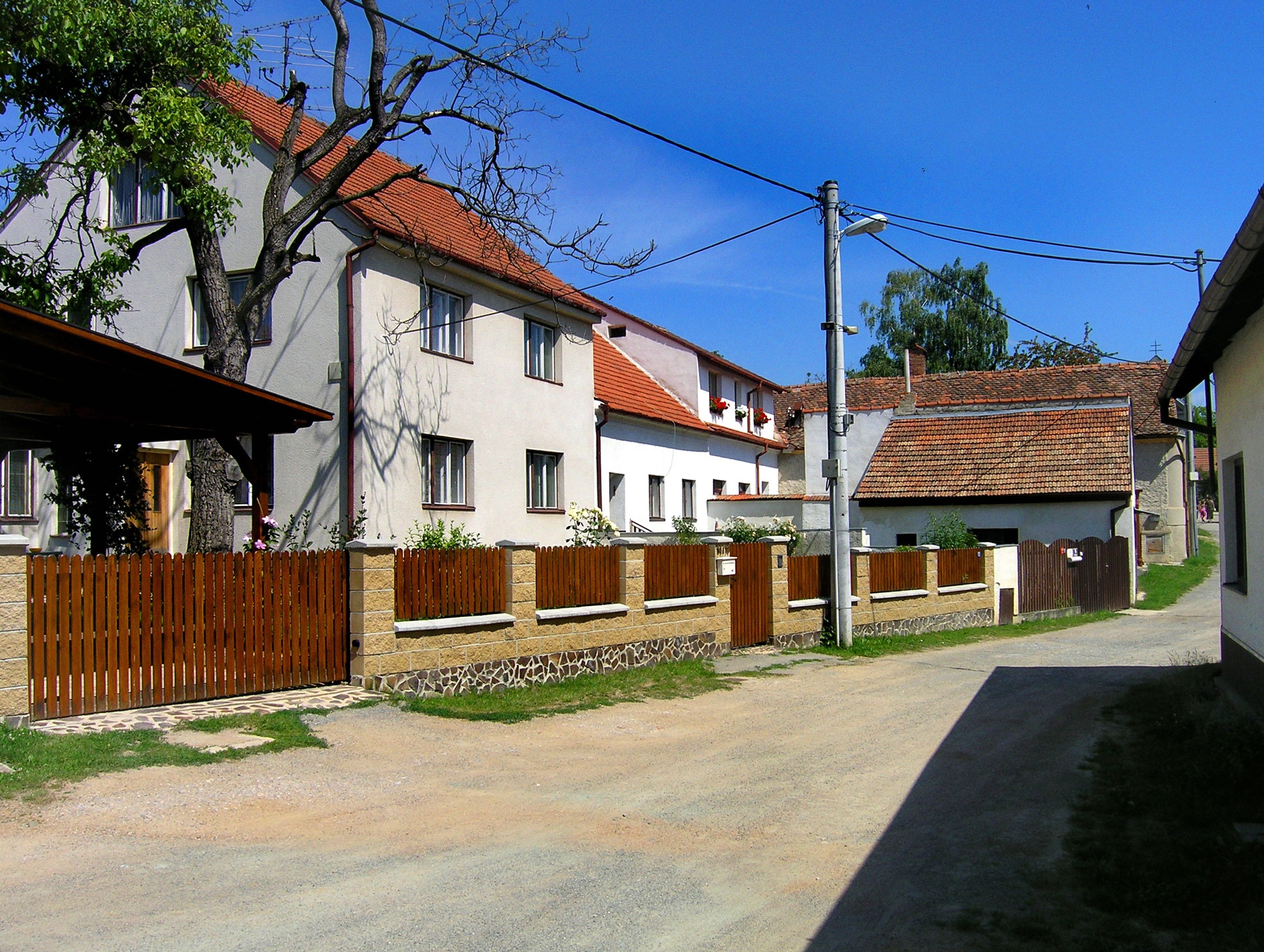 U Zvoničky street in Ořešín quarter in Brno, Czech Republic